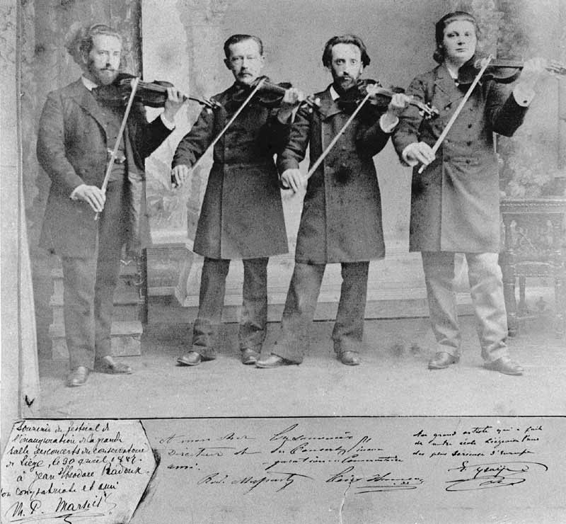 Four belgian violinists, Rodolphe Massart (1840—1910), Martin-Pierre-Joseph Marsick (1847—1924), César Thomson (1857—1931) et Eugène-Auguste Ysaÿe (1858—1931), pictured on the occasion of inauguration of the new concert hall of Liege conservatory. The picture is signed by all of them